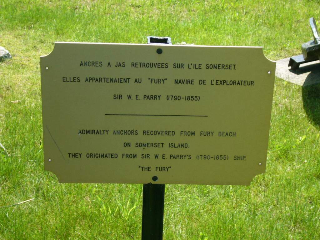 Commander William Edward Parry, RN, FRS abandoned the beset HMS Fury at "Fury Beach", Somerset Island, Nunavut in 1825. He left two admiralty pattern anchors, stores and boats on the beach for future explorers to use. The anchors remained as landmarks for navigators for 136 years. In 1956 Capt T.C. Pullen, RCN sailing in CCGS Labrador recovered the anchors which eventually came to be displayed at the Museum of Fort Saint Jean. The anchors of HMS Fury (1814) are on permanent display near a parade field at the Royal Military College Saint-Jean. "The HMS Fury anchors are on the northeastern corner of the Royal Military College Saint-Jean parade square" Quote: Eric Ruel, Conservateur, Musée du Fort Saint-Jean. Photo credit: Fort Saint-Jean Museum. Personal permission granted to User:Tjlynnjr by Mr. Eric Ruel, curator of RMC St. Jean Museum. Copy of permission will be furnished upon request. Eric Ruel, Conservateur Musée du Fort Saint-Jean 15, rue Jacques-Cartier Nord Saint-Jean-sur-Richelieu, Qc J3B 8R8 Téléphone musée: (450) 358-6559 Téléphone cellulaire : (514) 347-1464 Courriel